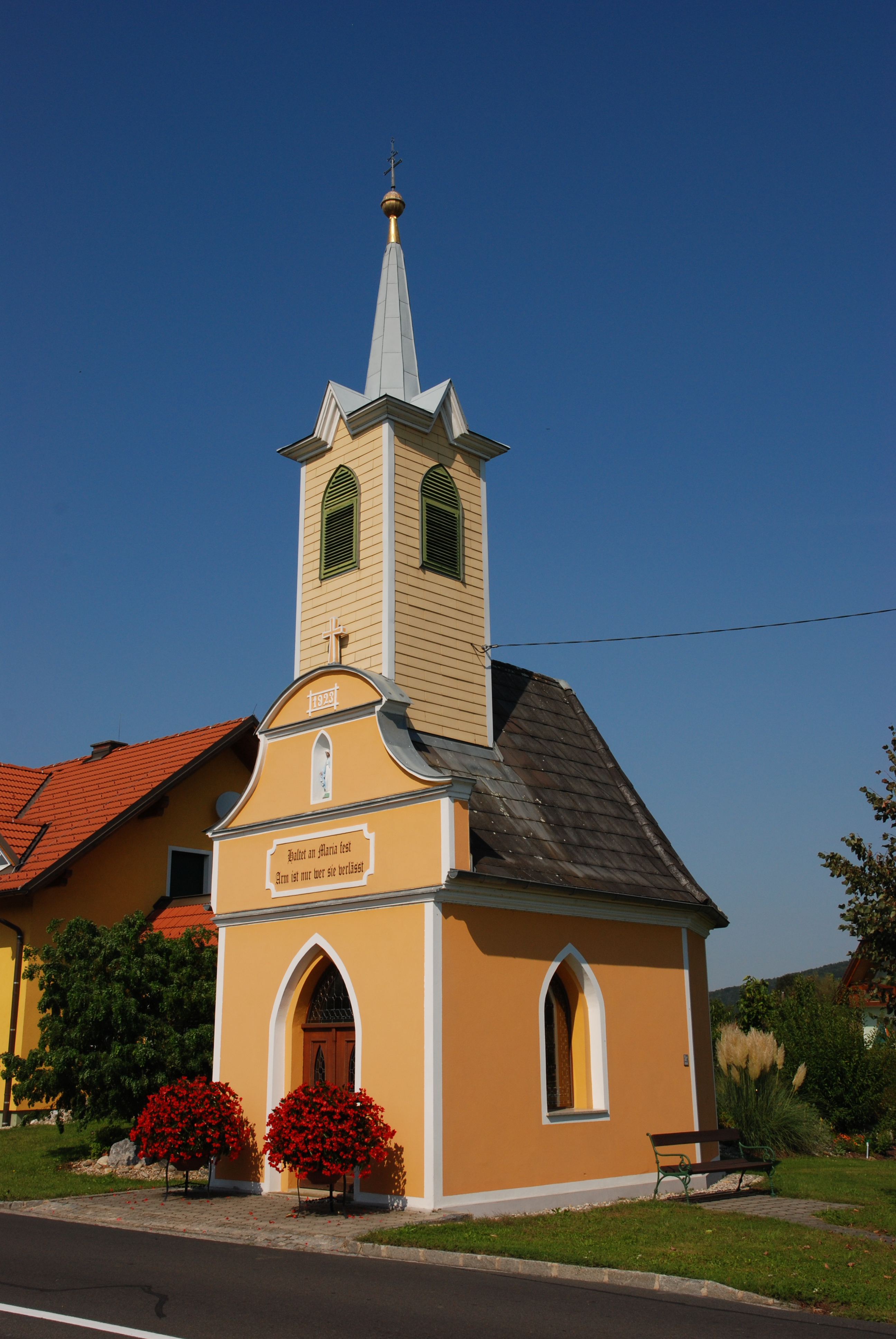 Kapelle Seibuttendorf